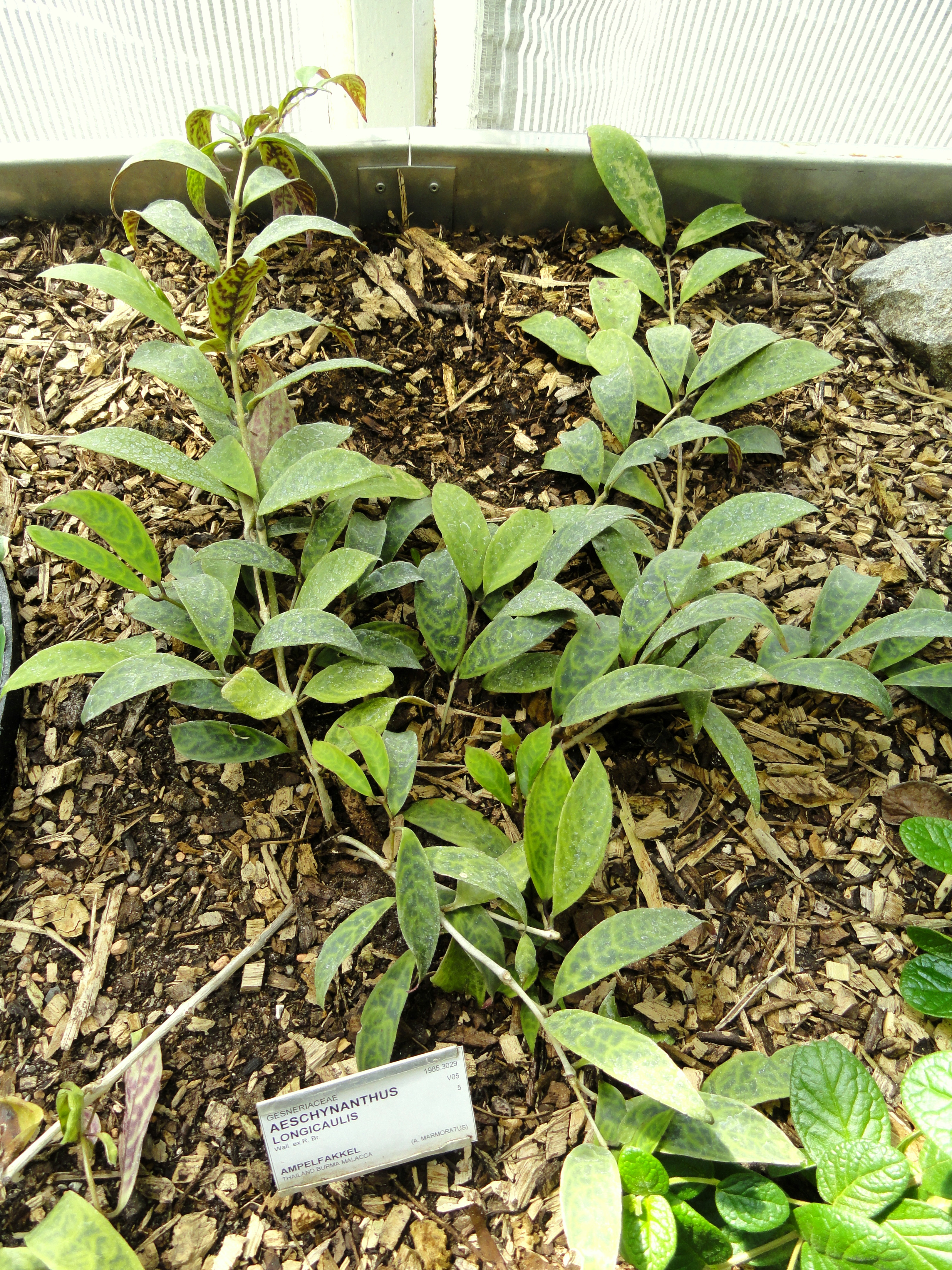 Botanical specimen in the University of Copenhagen Botanical Garden, Copenhagen, Denmark.